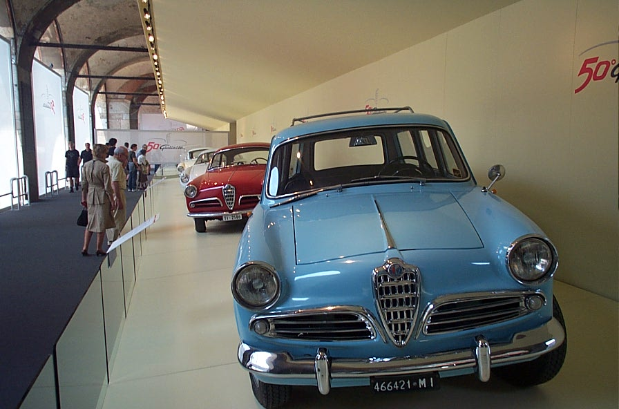 An exhibition celebrating 50 years of the Alfa Romeo Giulietta in Milan, 2004-06-09.